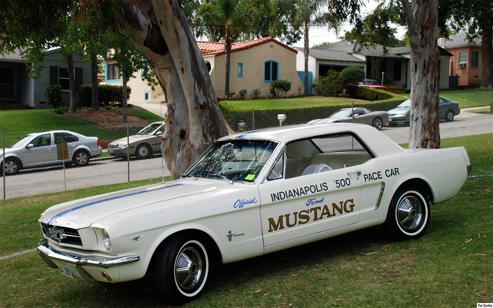 1964 Ford Mustang Pace Car - front left (first generation)